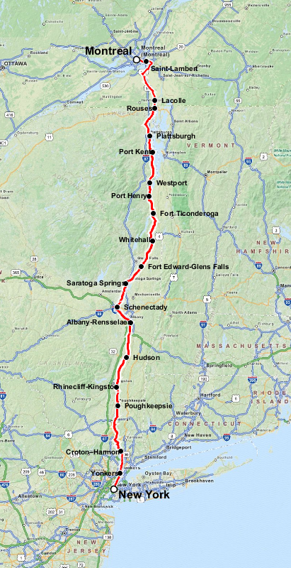 Amtrak Adirondack Legend: ━━━ Primary lines ━━━ Secondary lines ━━━ Tertiary lines